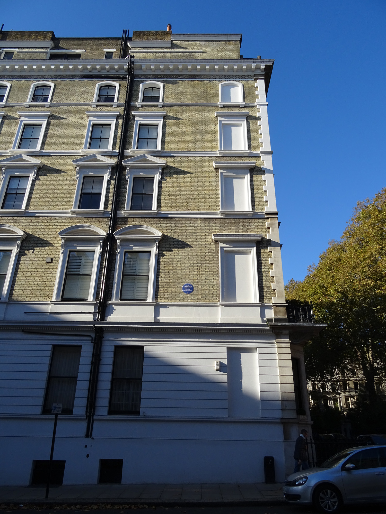 AVA GARDNER 1922-1990 Film Star lived and died here - 34 Ennismore Gardens, Knightsbridge, London SW7 1AE